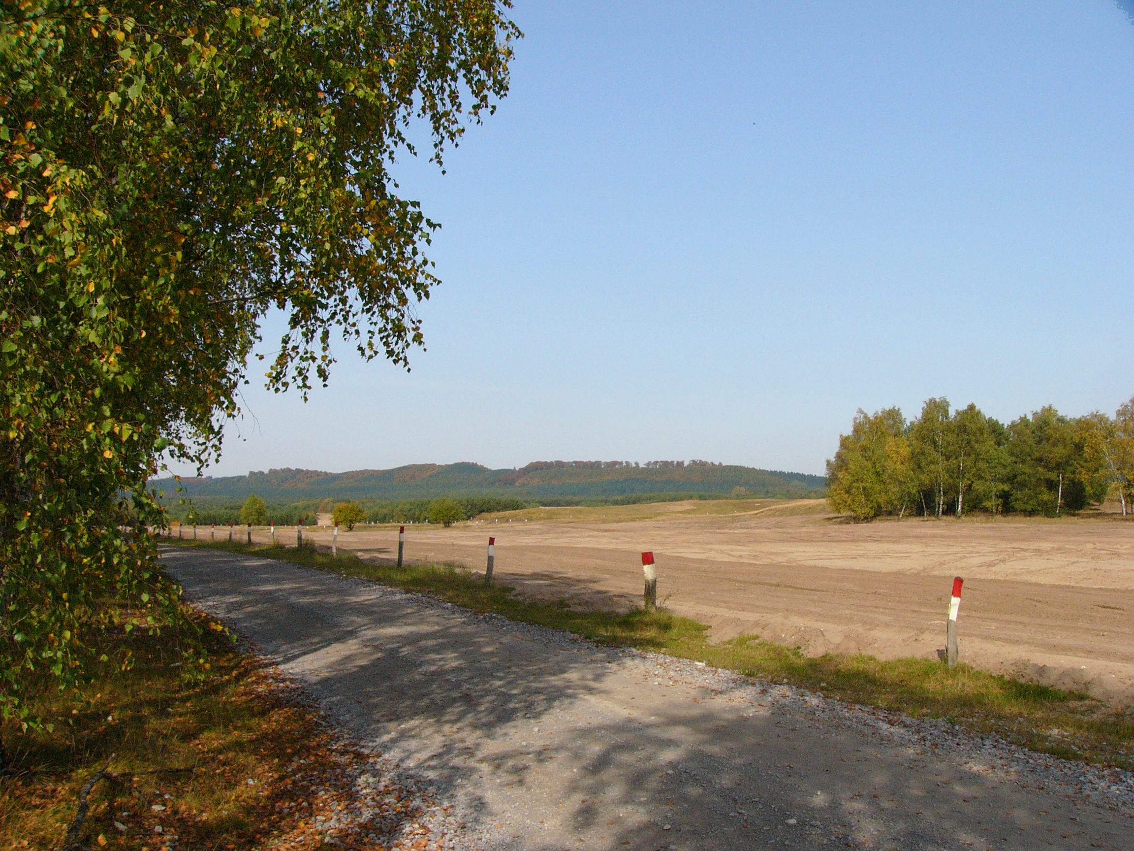 Military training area Senne, Germany